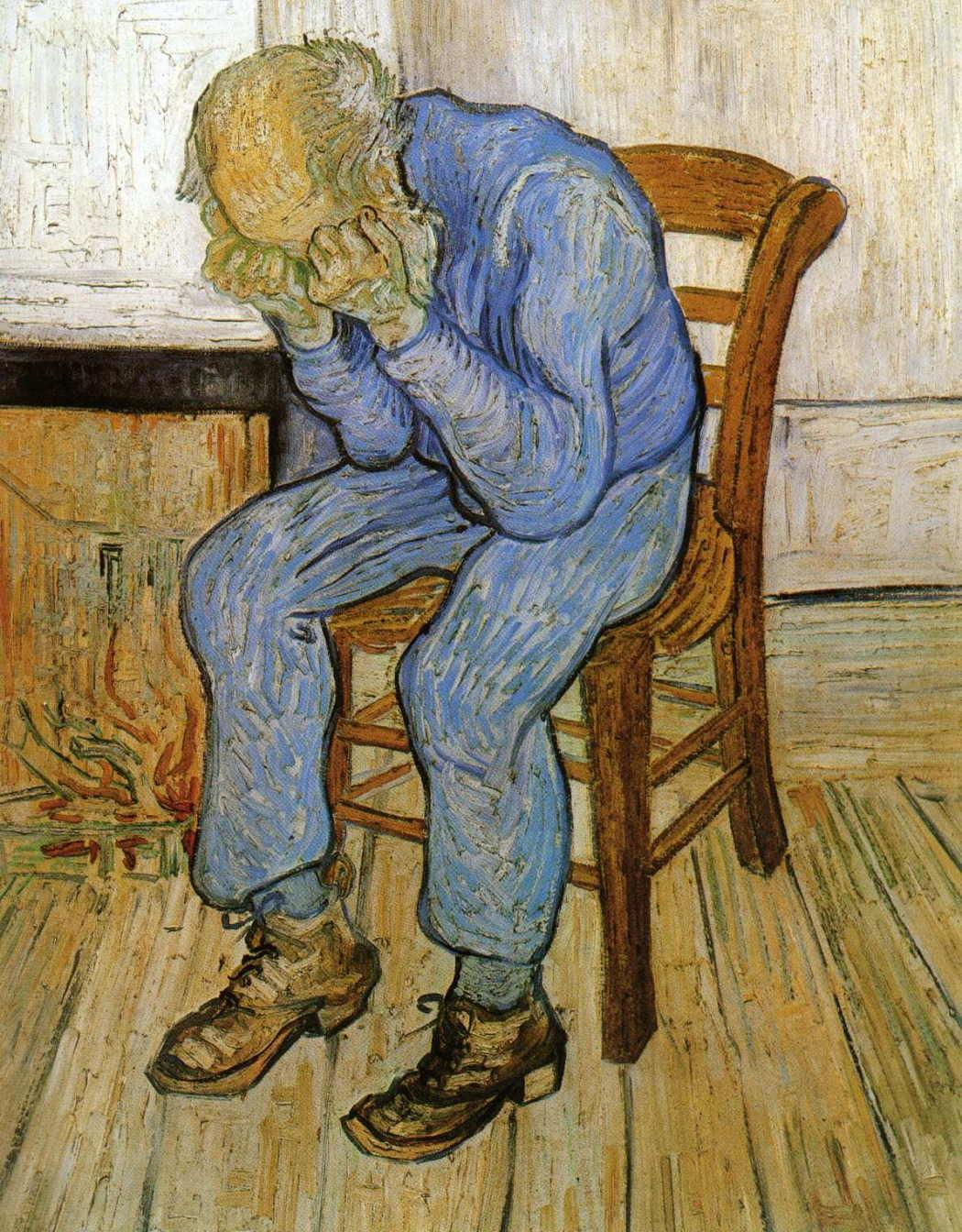 Oil painting reproduction of Vincent van Gogh